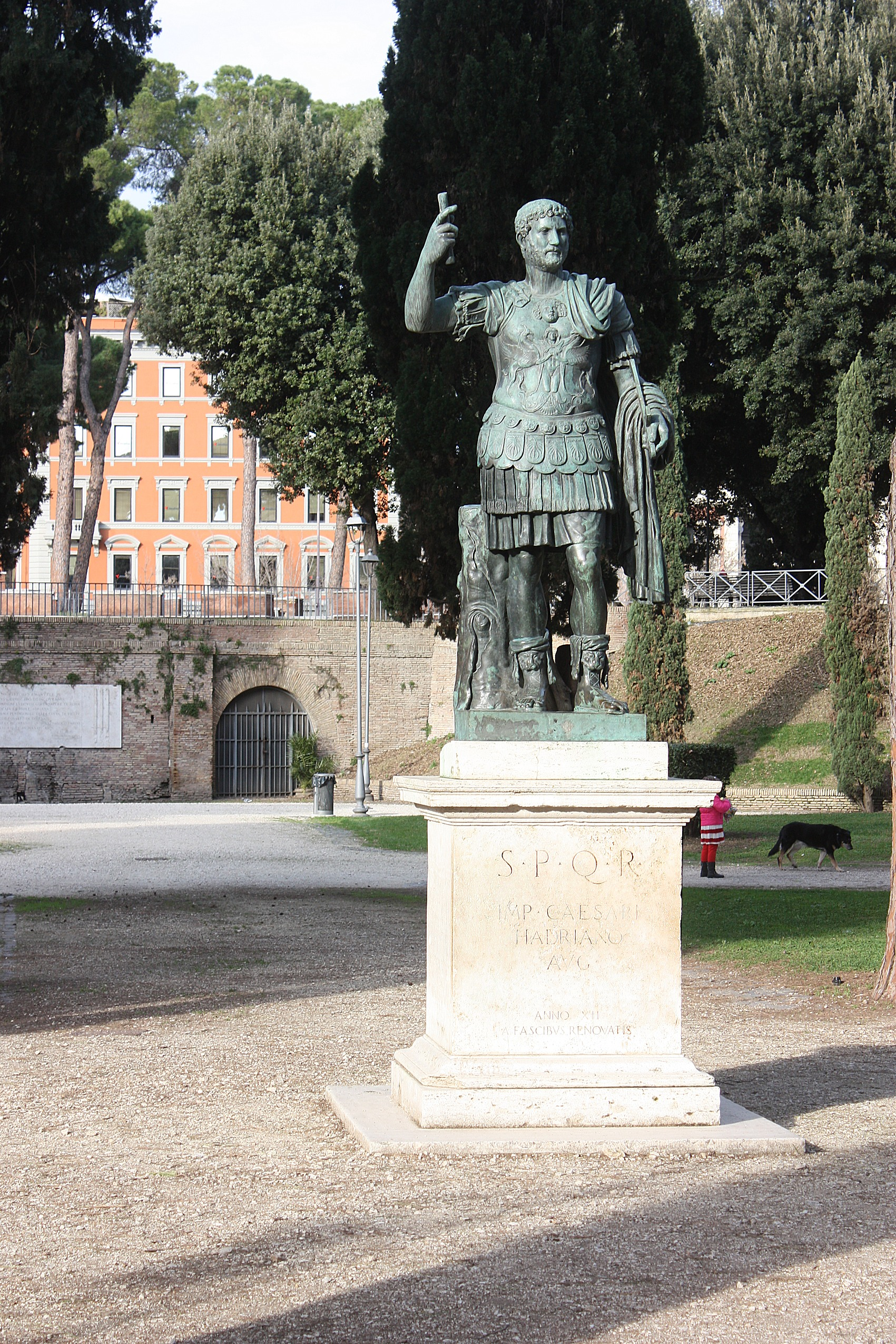 Rome, statue of Hadrian in the park Adriano